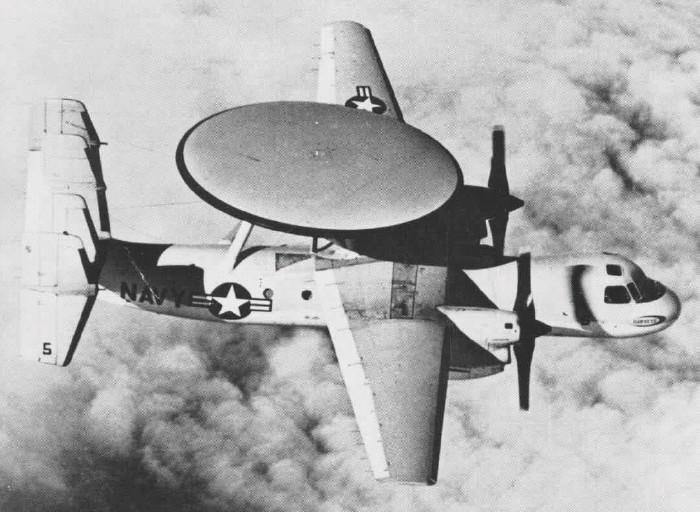 A Grumman E-2A Hawkeye in flight in the early 1960s. This aircraft may be the fifth E-2A , BuNo 148718.